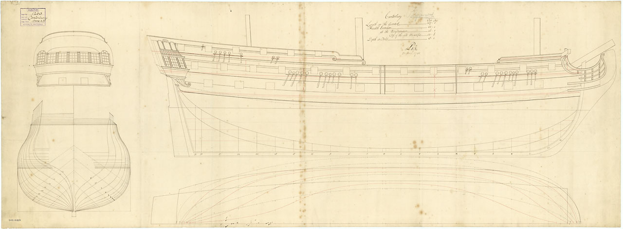 Canterbury (1744) Scale: 1:48. Plan showing the body plan, stern board outline, sheer lines, and longitudinal half-breadth proposed (and approved) for Canterbury (1744), a 1741 Establishment 60-gun Fourth rate, two-decker. Signed by Peirson Lock [Master Shipwright, Plymouth Dockyard, 1726-1742] CANTERBURY 1774